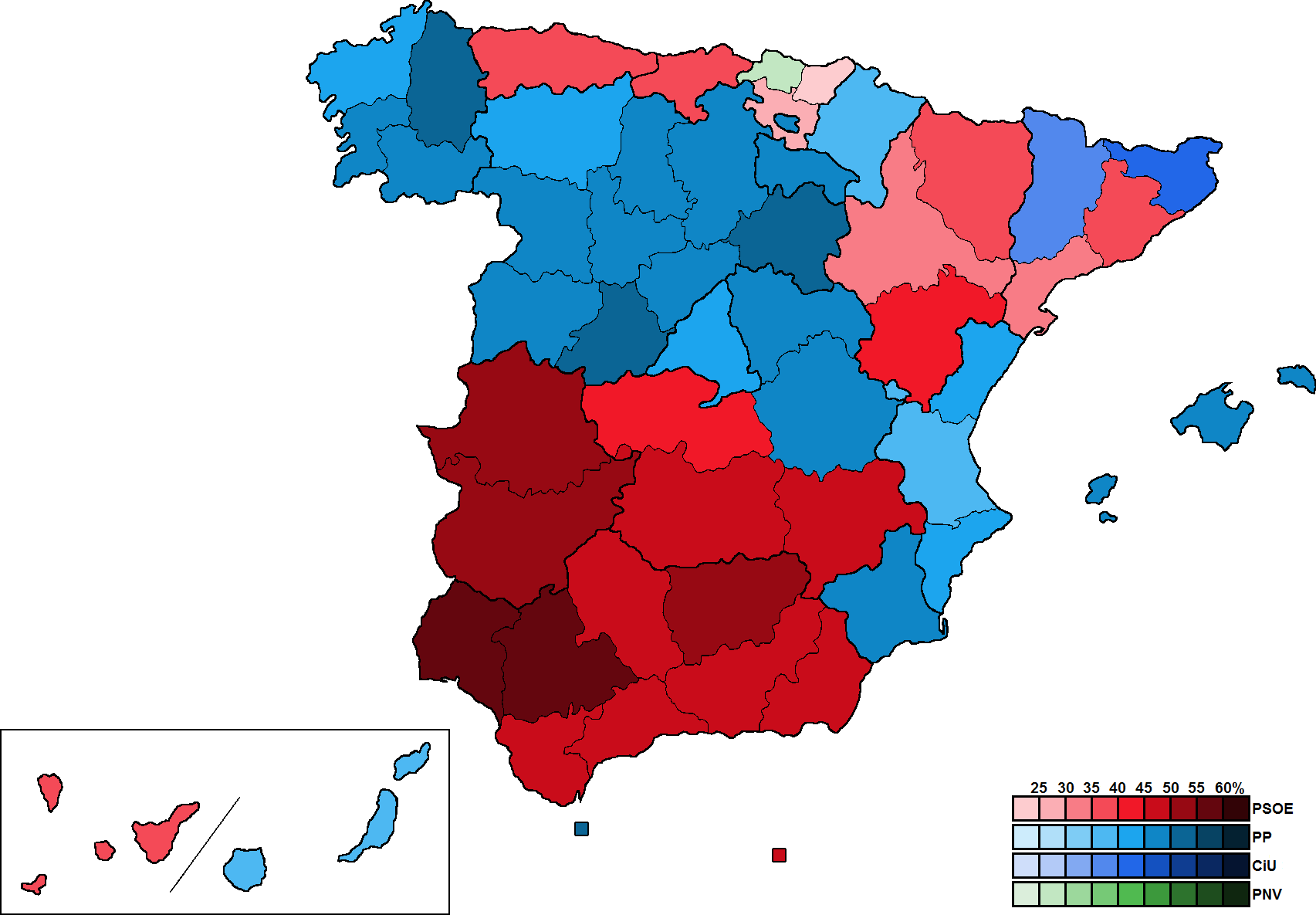 Provincial results for the 1993 Spanish general election.